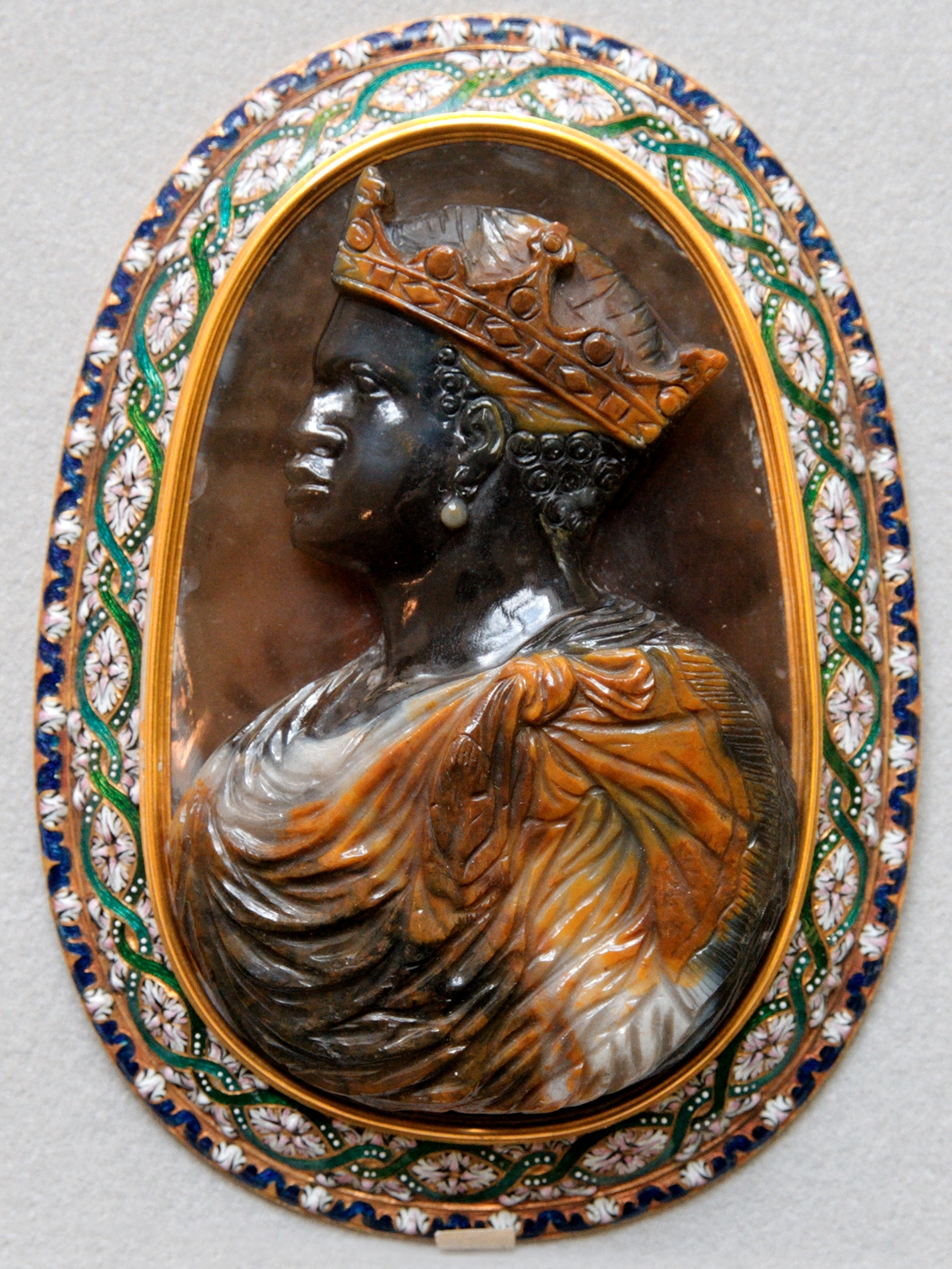 Portrait of an African king in agate; cameo, second half of the 16th century (enamelled gold mount, 17th century).